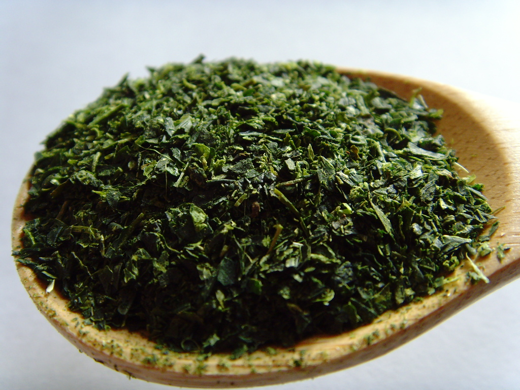 Konacha tea close-up